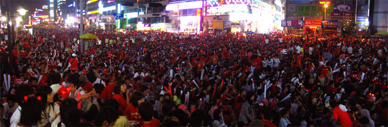 Downtown Cheonan packed with supporters of the Korean World Cup soccer team.